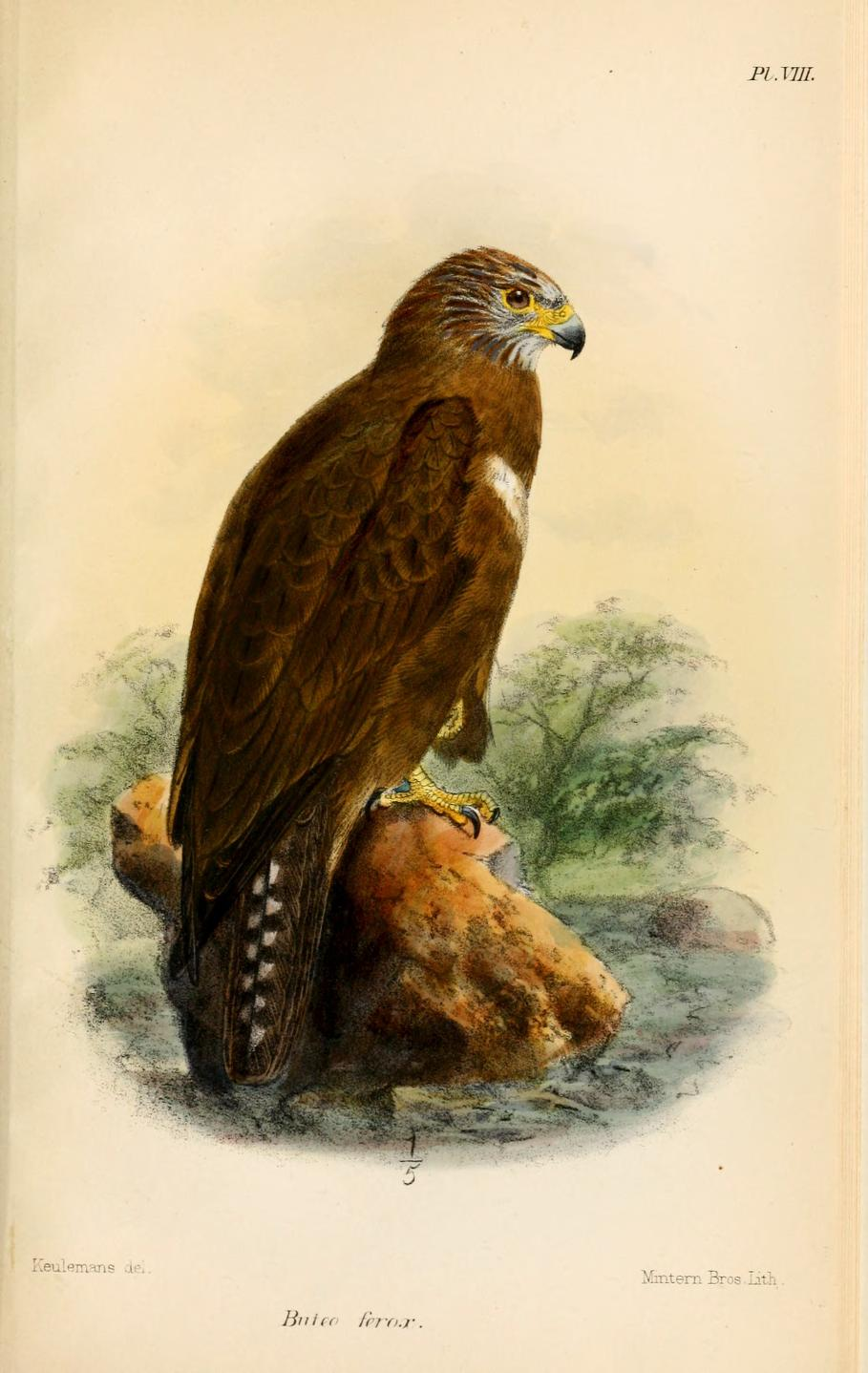 Buteo ferox = Buteo rufinus, Long-legged Buzzard